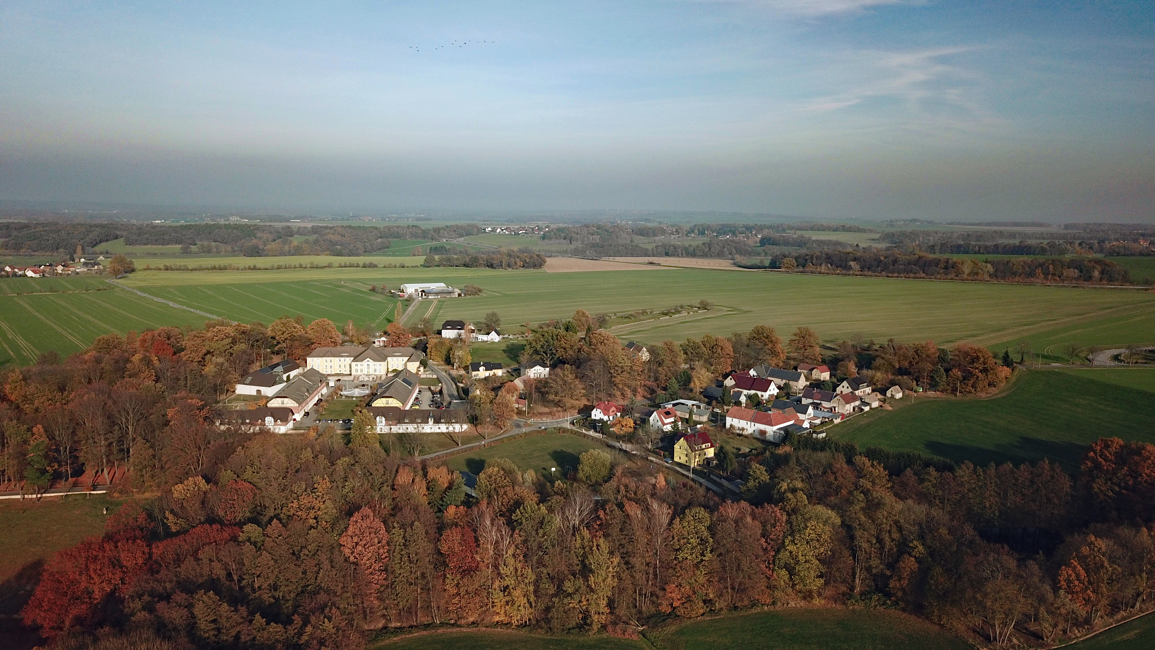 Schmochtitz (Bautzen, Saxony, Germany) Hornjoserbsce: Powětrowy wobraz Smochćic